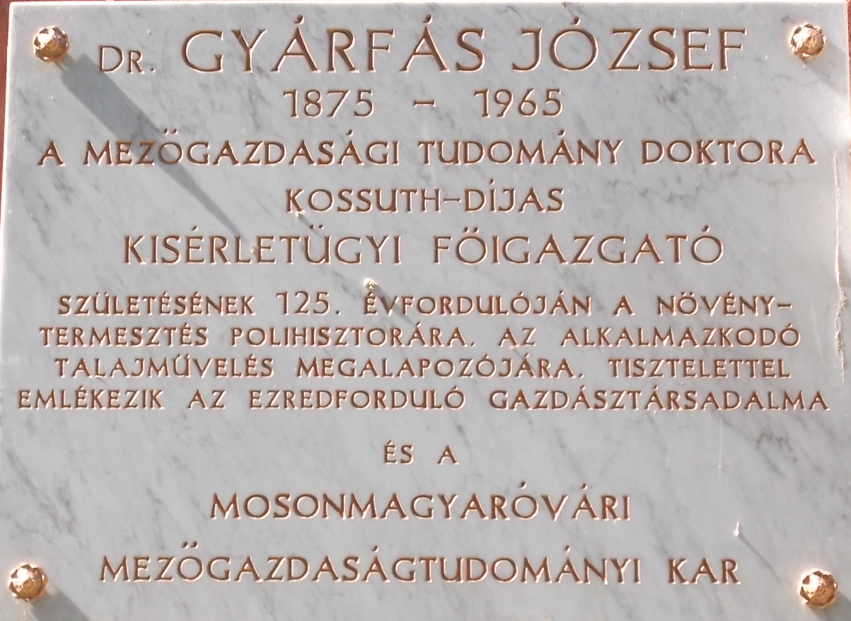 Listed buiding. Block C is the Department of Food Science of the Faculty of Agricultural and Food Science of Széchenyi István University. [1] Plaque. - 15-17 Lucsony Street, Magyaróvár neighborhood, Mosonmagyaróvár, Győr-Moson-Sopron County, Hungary.